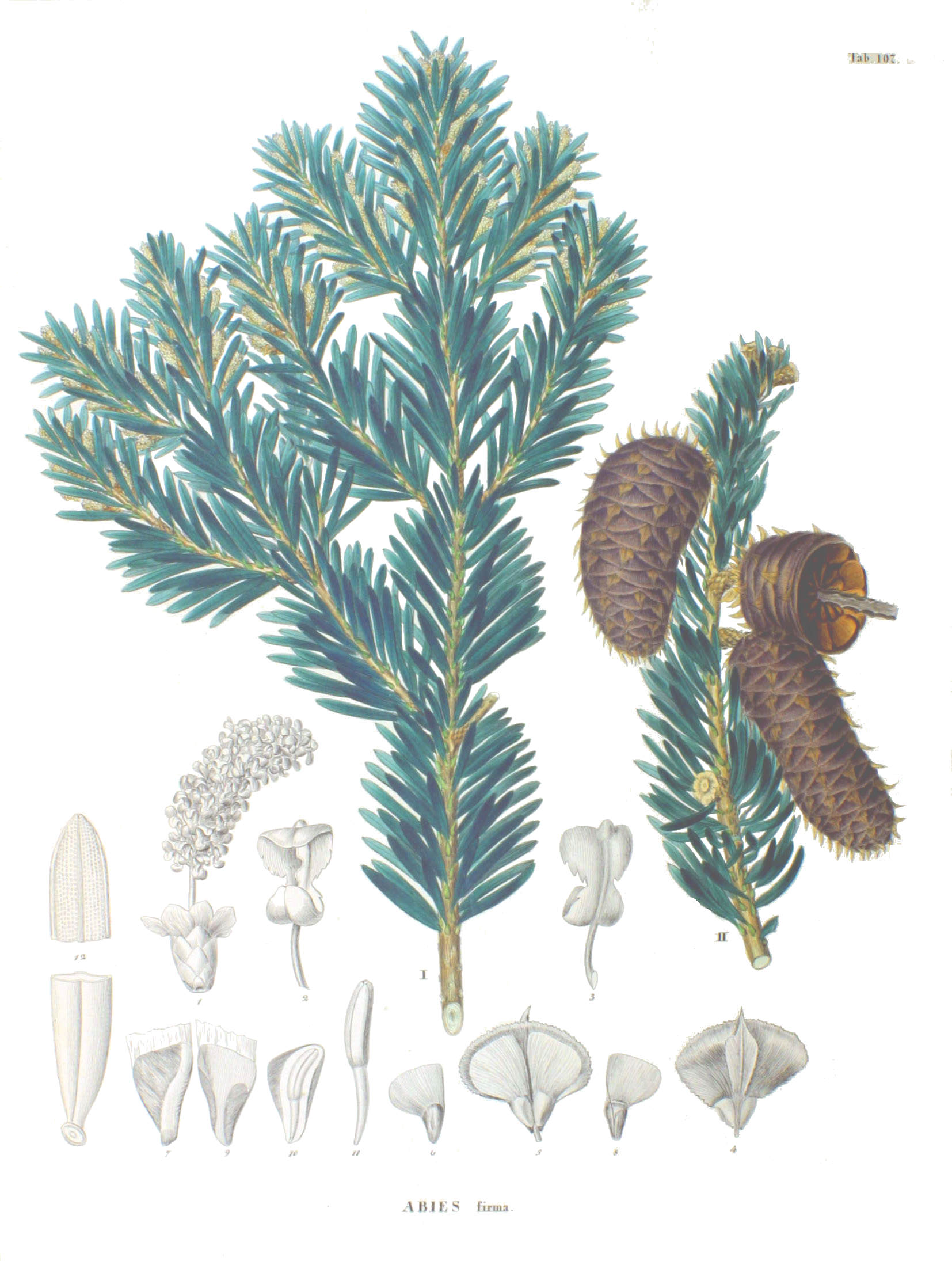 Plate from book